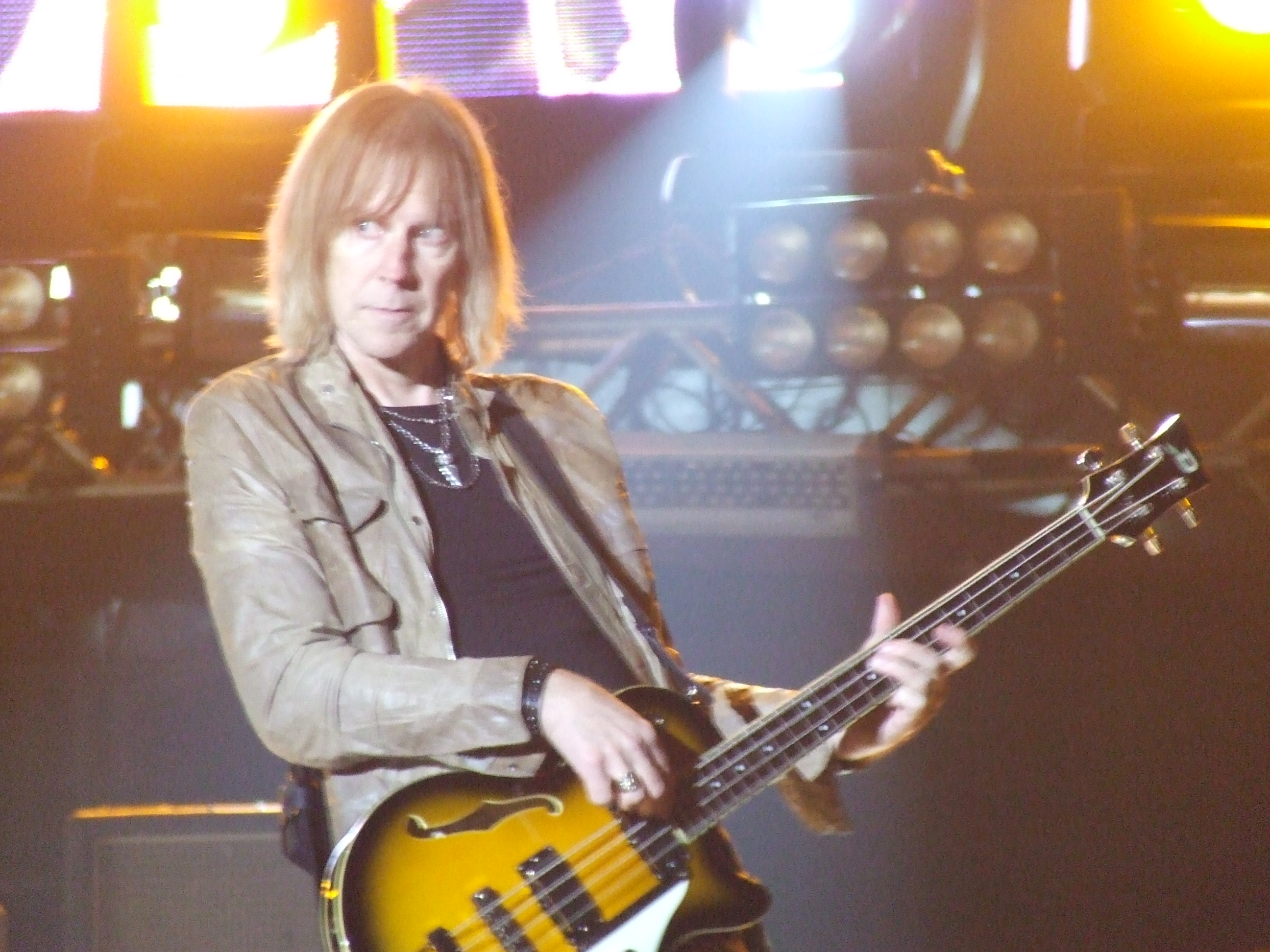 Tom Hamilton